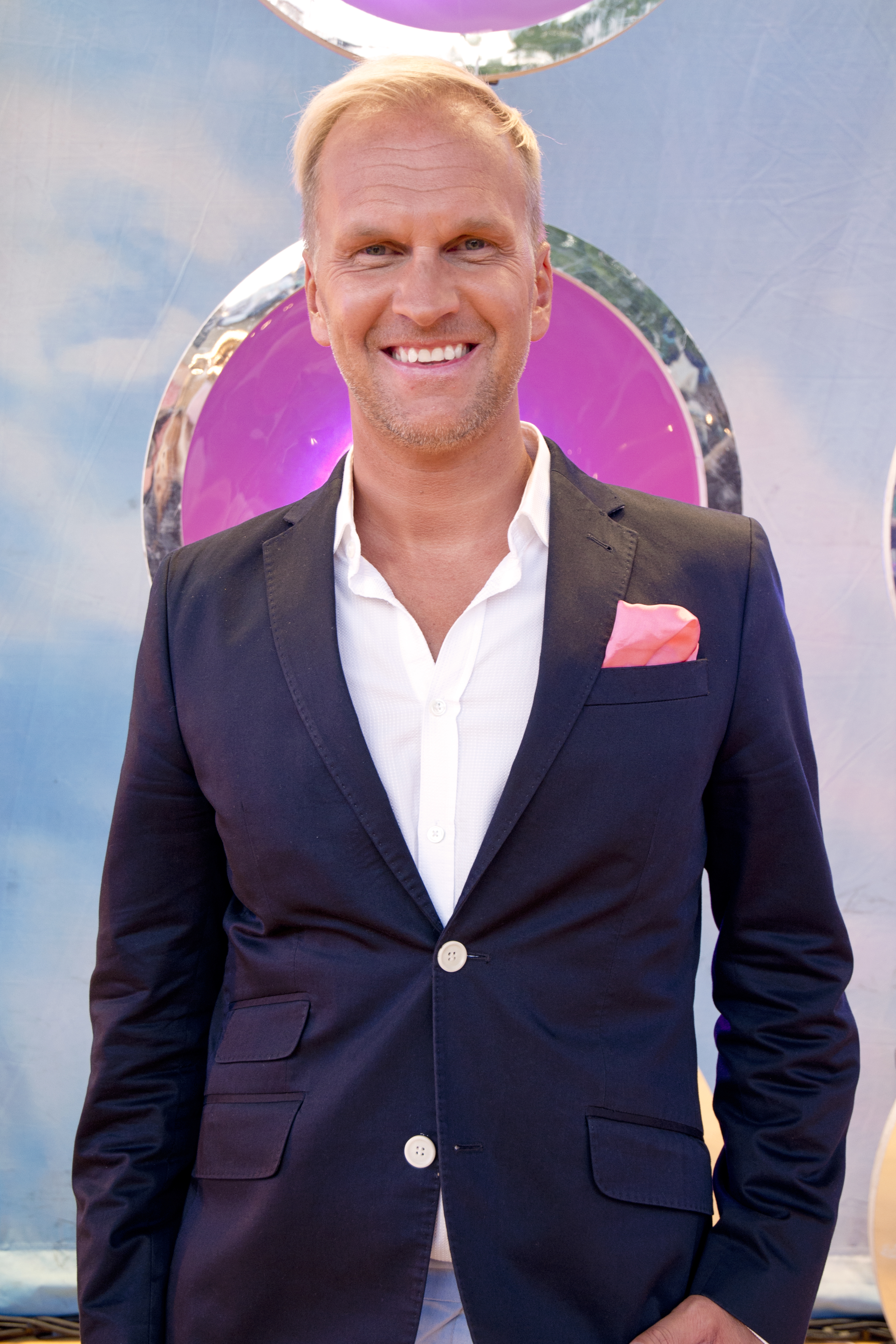 Gabriel Forss at Sommarkrysset in Stockholm, Gröna Lund